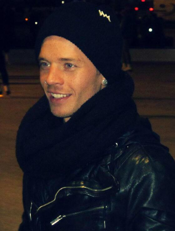 Sauli Koskinen in Helsinki fall 2013